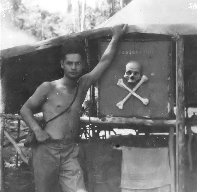 31st Bombardment Squadron - Somewhere in the South Pacific, 1943